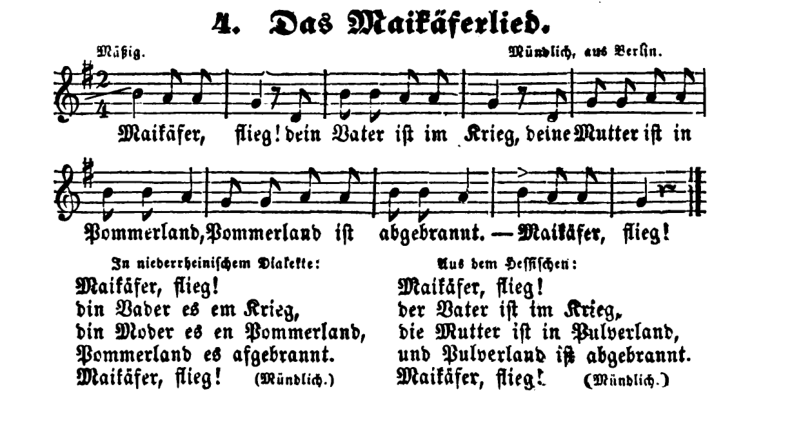 A version of the song with its melody, published by L. Erk in his "Die deutschen Volkslieder" (Berlin, 1838).